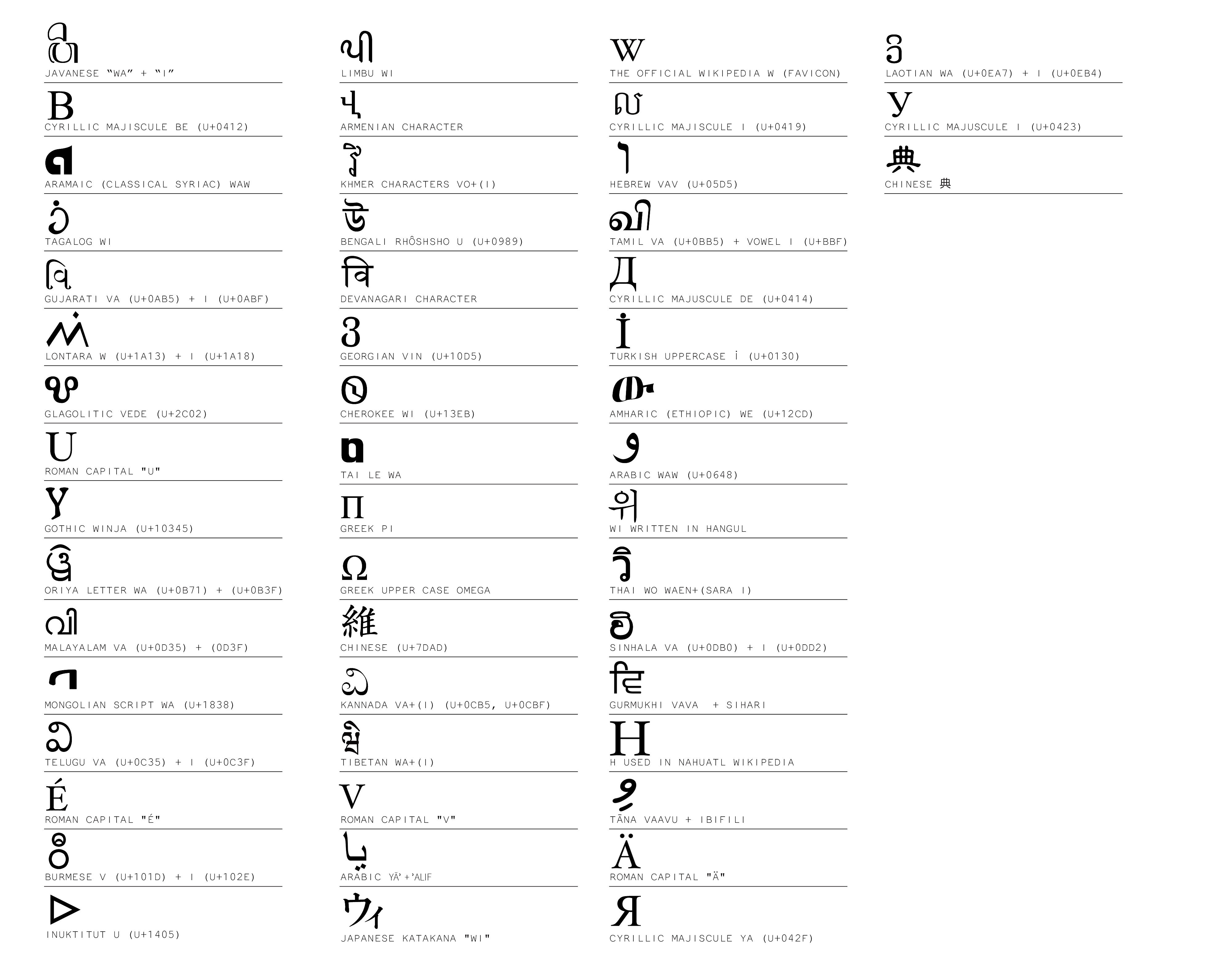 Wikipedia glyphs contained in the new logotype